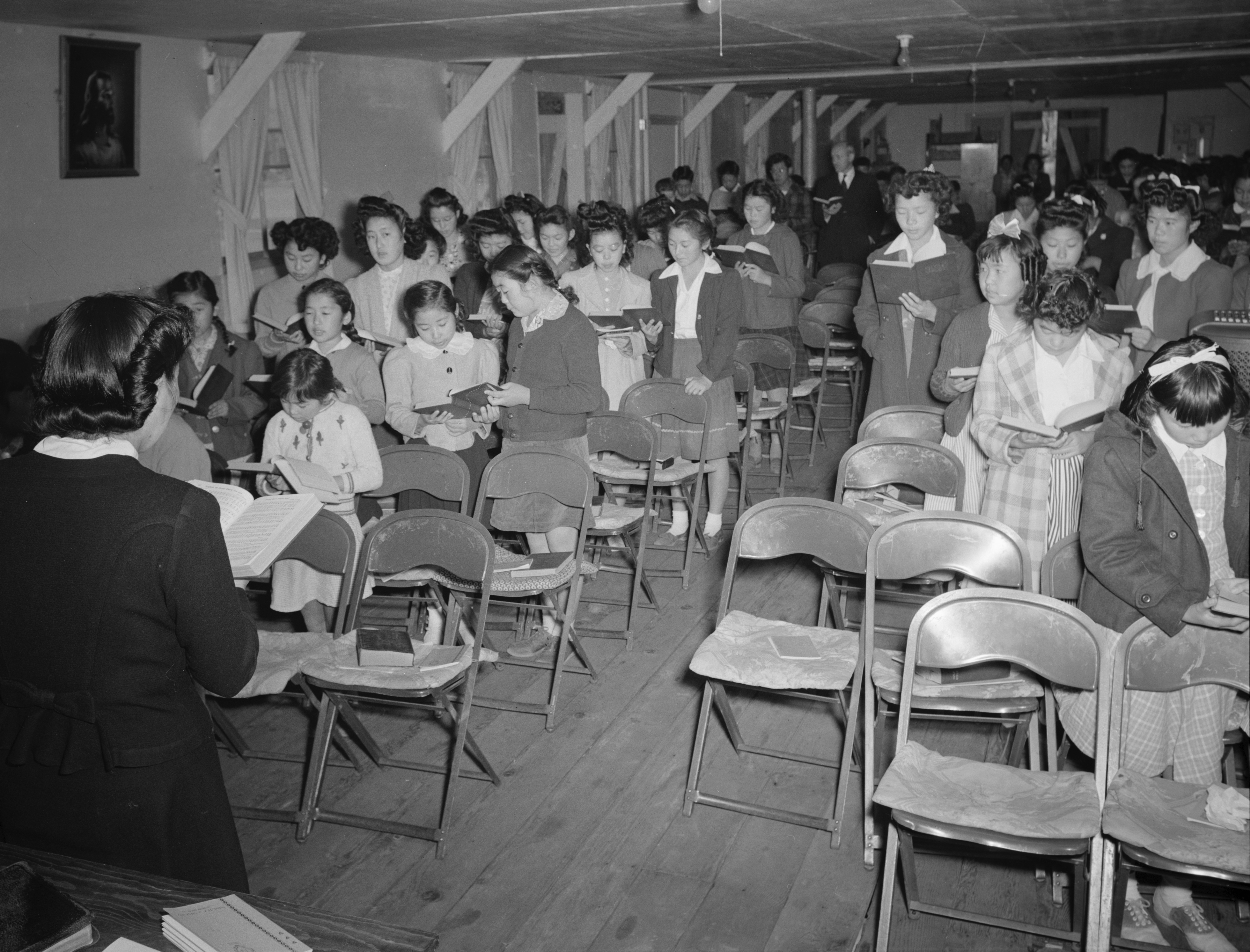 Sunday school class, Manzanar Relocation Center, California People in church service, standing, holding hymnals.